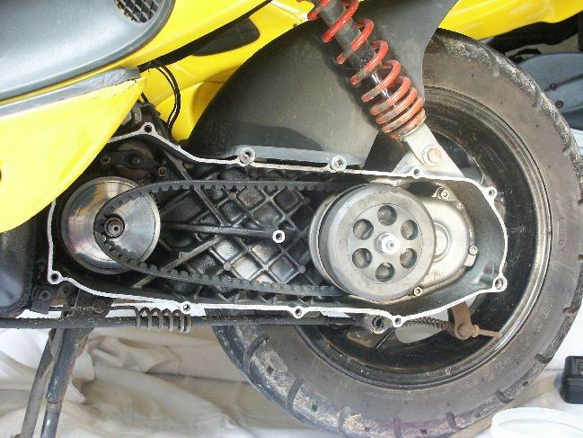 Continuously variable transmission of Minarelli 50ccm AC (air-cooled) engine.